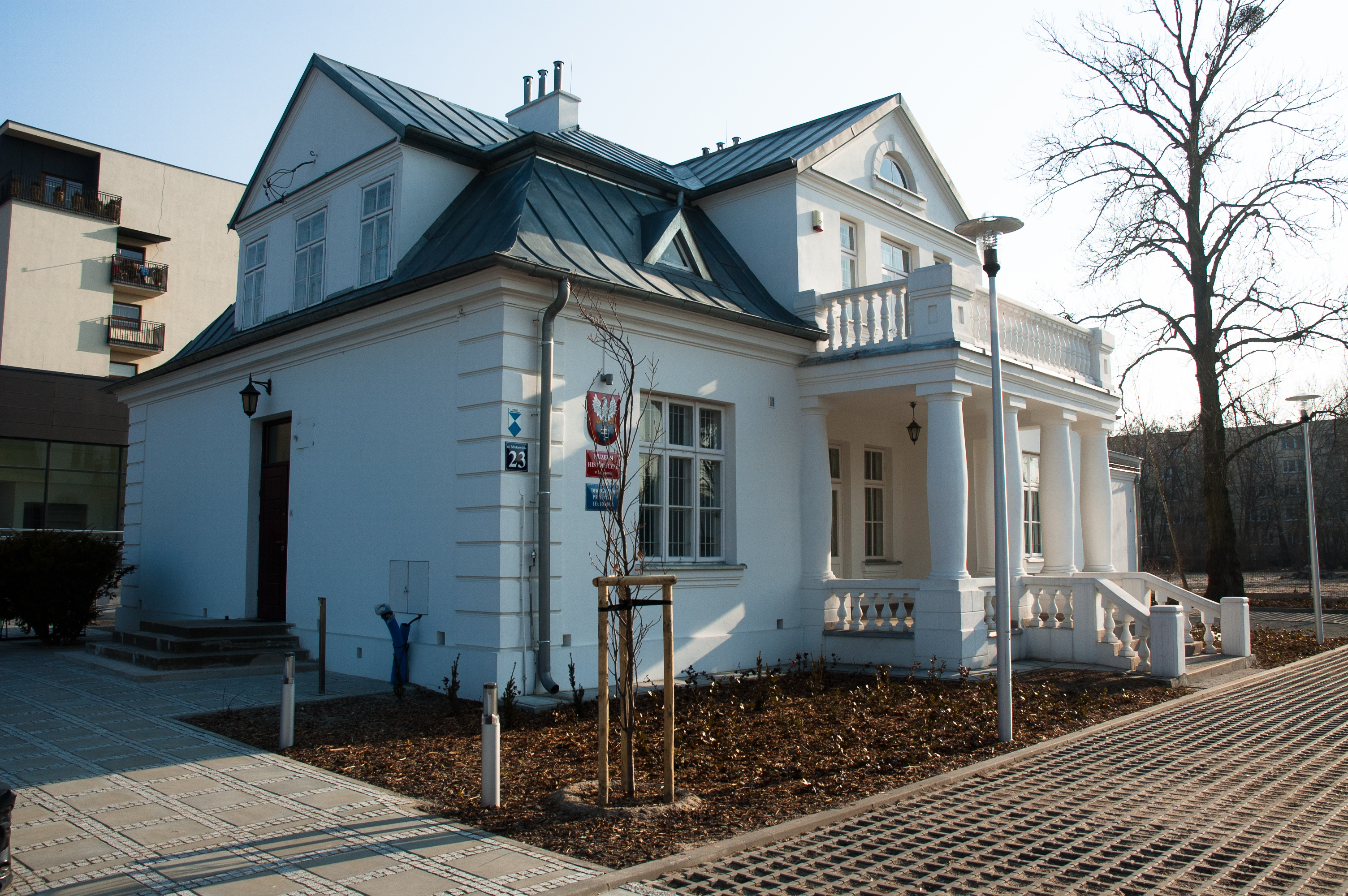 Historic museum villa Pansies - Legionowo, Mickiewicz Street 23